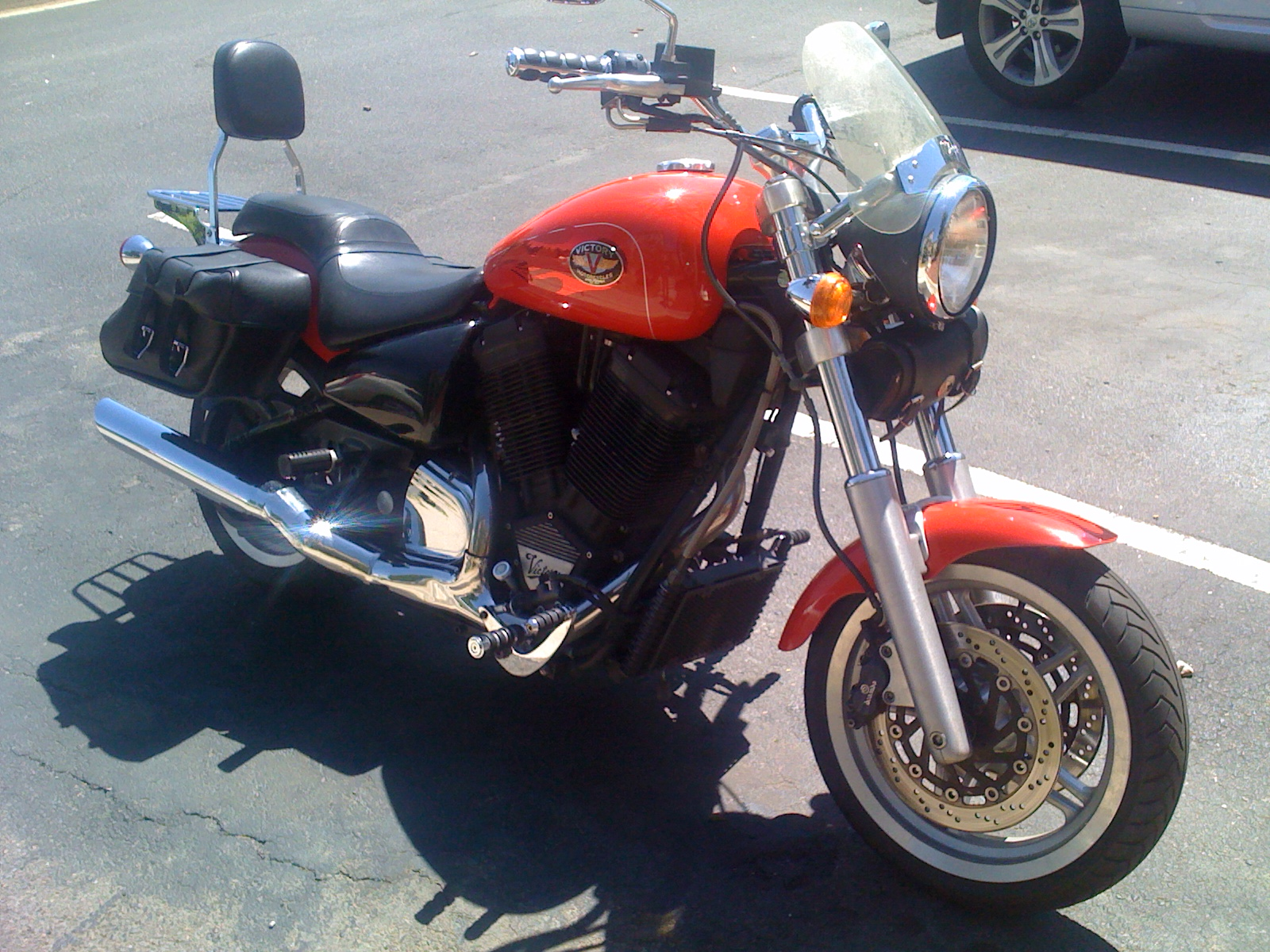 Victory Motorcycle, V92SC, Year 2000